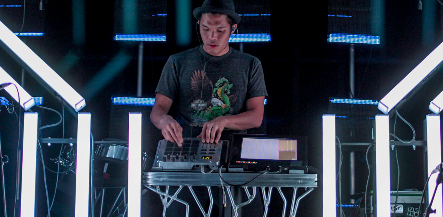 ediT for Glitch Mob, Summer 2011